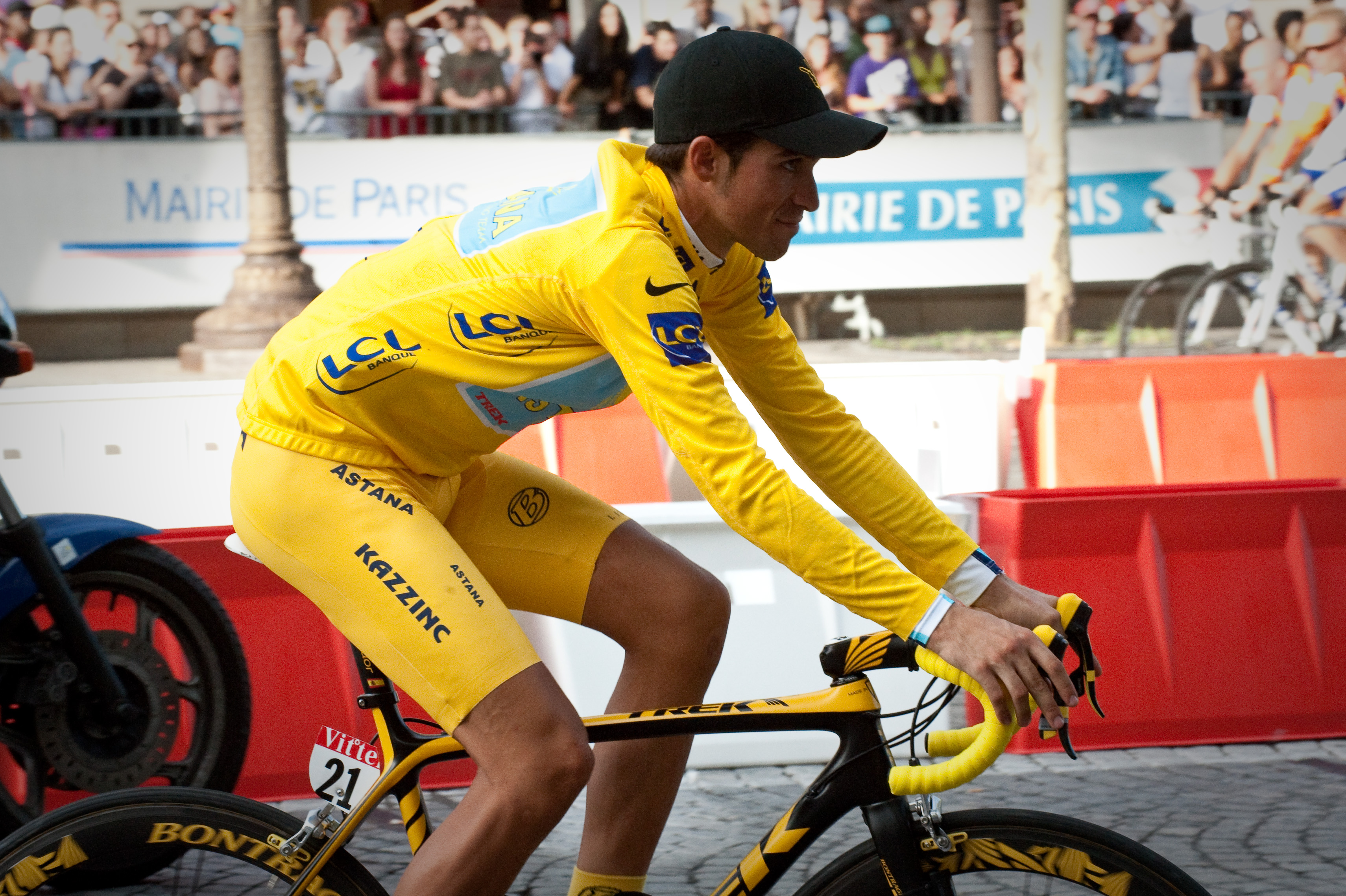 Alberto Contador, winner of the 2009 Tour de France, on his bike in the yellow jersey.